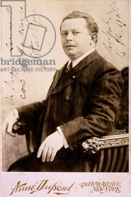 Arturo Vigna (Turin, 1863 - Milan, 1927), Italian conductor, Photograph with dedication to Ruggero Leoncavallo, New York, December 15, 1905